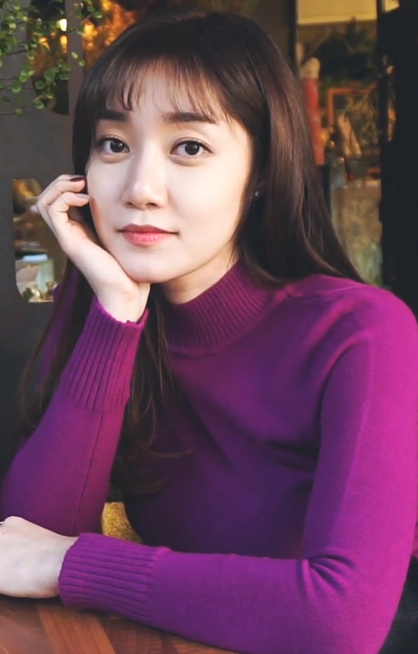 Sera Ryu in an update for her YouTube channel, March 6, 2018